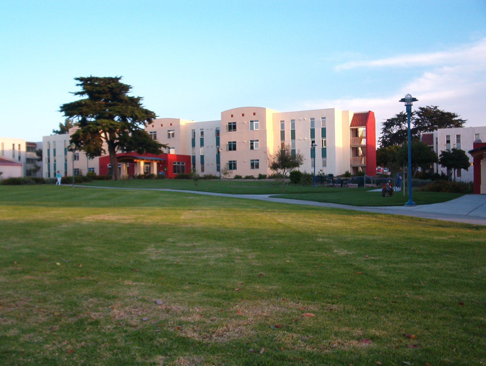 Residential hall of California State University, Monterey Bay (building 208).